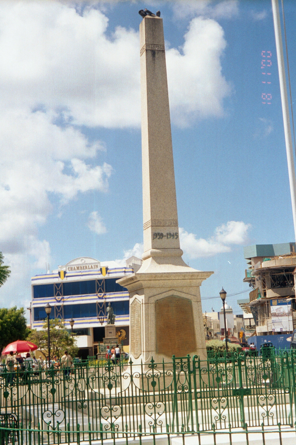 National Heroes' Square in Bridgetown, Barbados. Pictured are the Cenotaph War Memorial and Lord Nelson's statue. (c.a. November 2000)